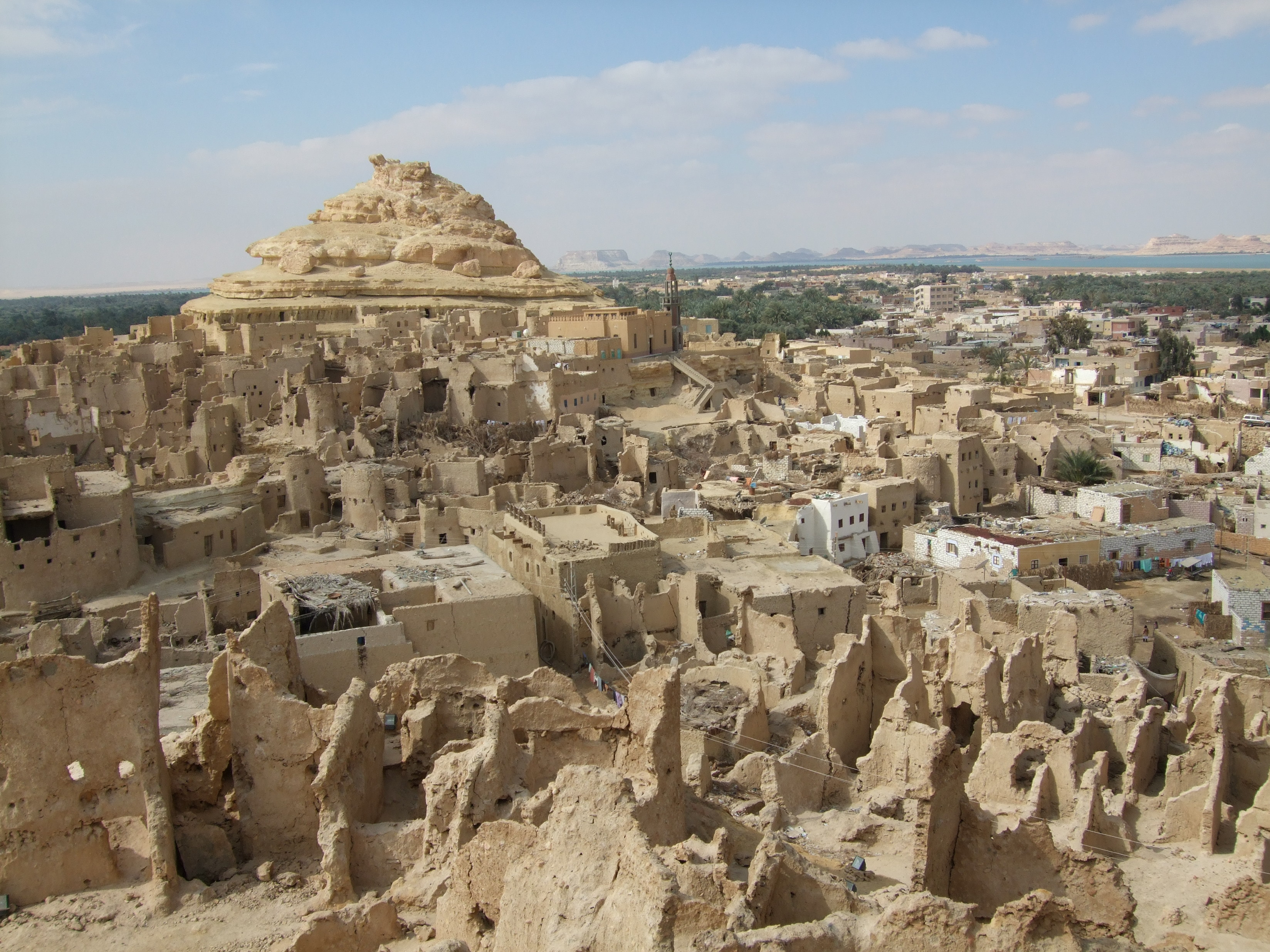 Picture taken from Shaly Island in Siwa, Egypt. Siwa Oasis can be seen in the background.